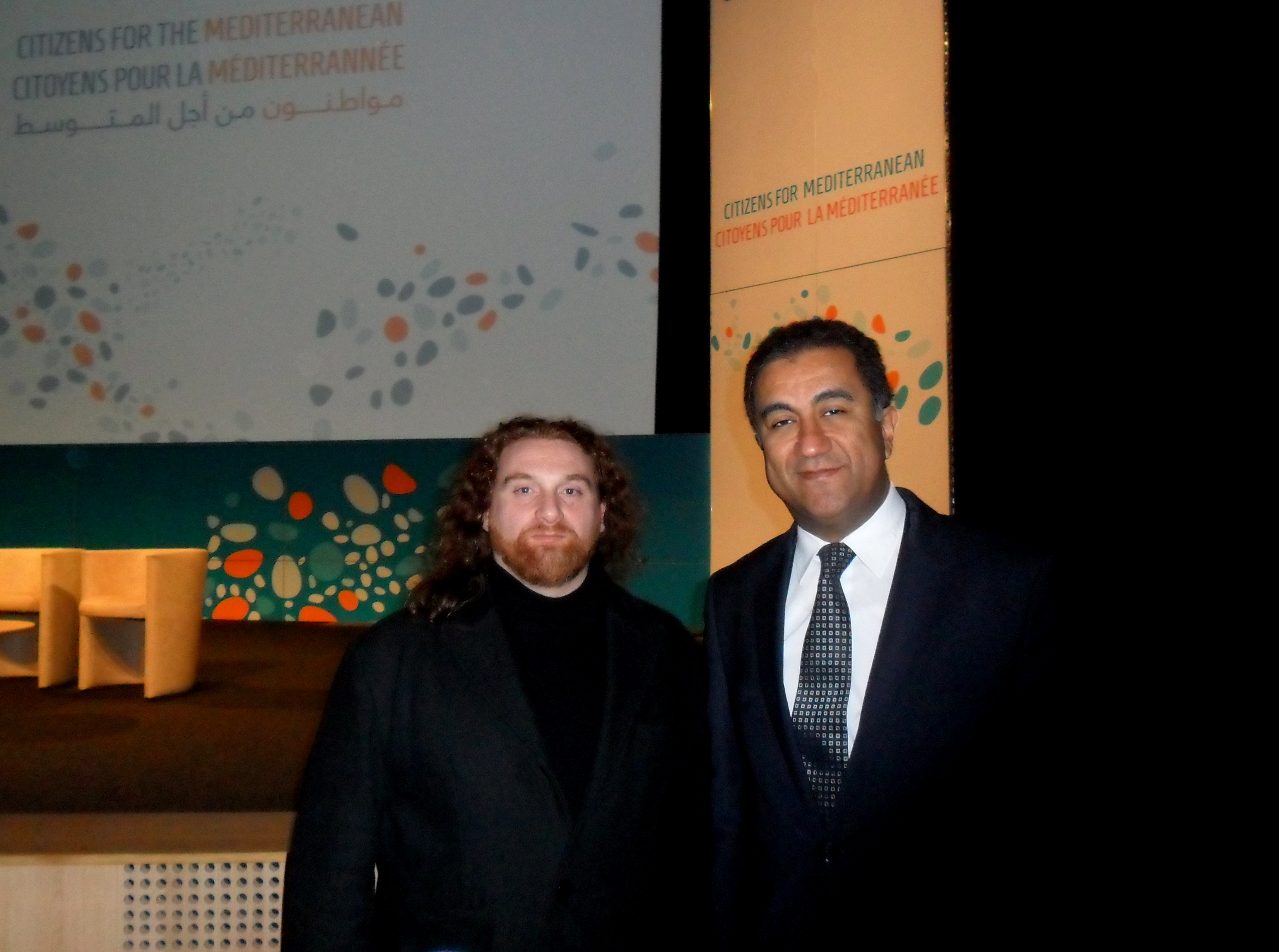 Ettori Maga (filmmaker, Regional Institute of Cinema and Audiovisual), Fathallah Sijilm'assi (Secretary General of the Union for the Mediterranean, Morocco's ambassador to France, in charge of the Barcelona Process and NATO's Mediterranean dialogue , Commercial Bank of Morocco)